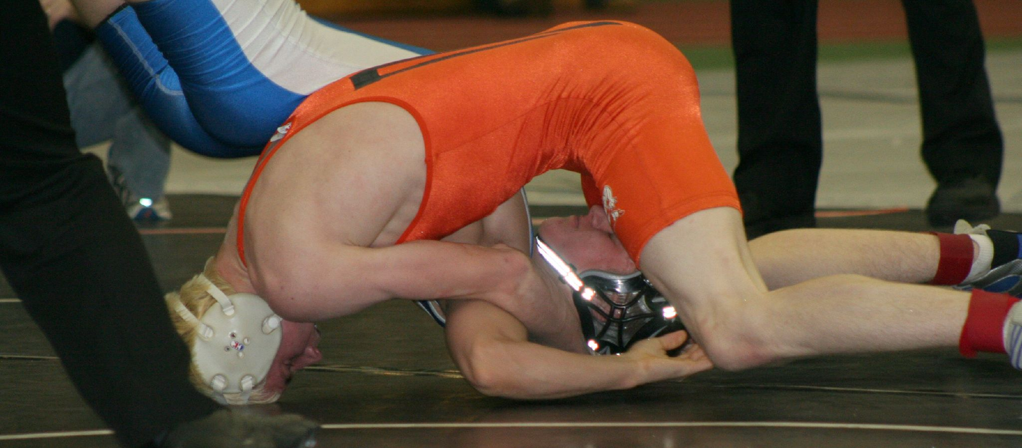 Two high school students wrestling (collegiate, scholastic, or folkstyle) in the United States.